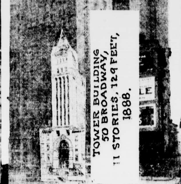 Crop of Sunday front page from The Sun showing New York's first skyscraper the Tower Building.